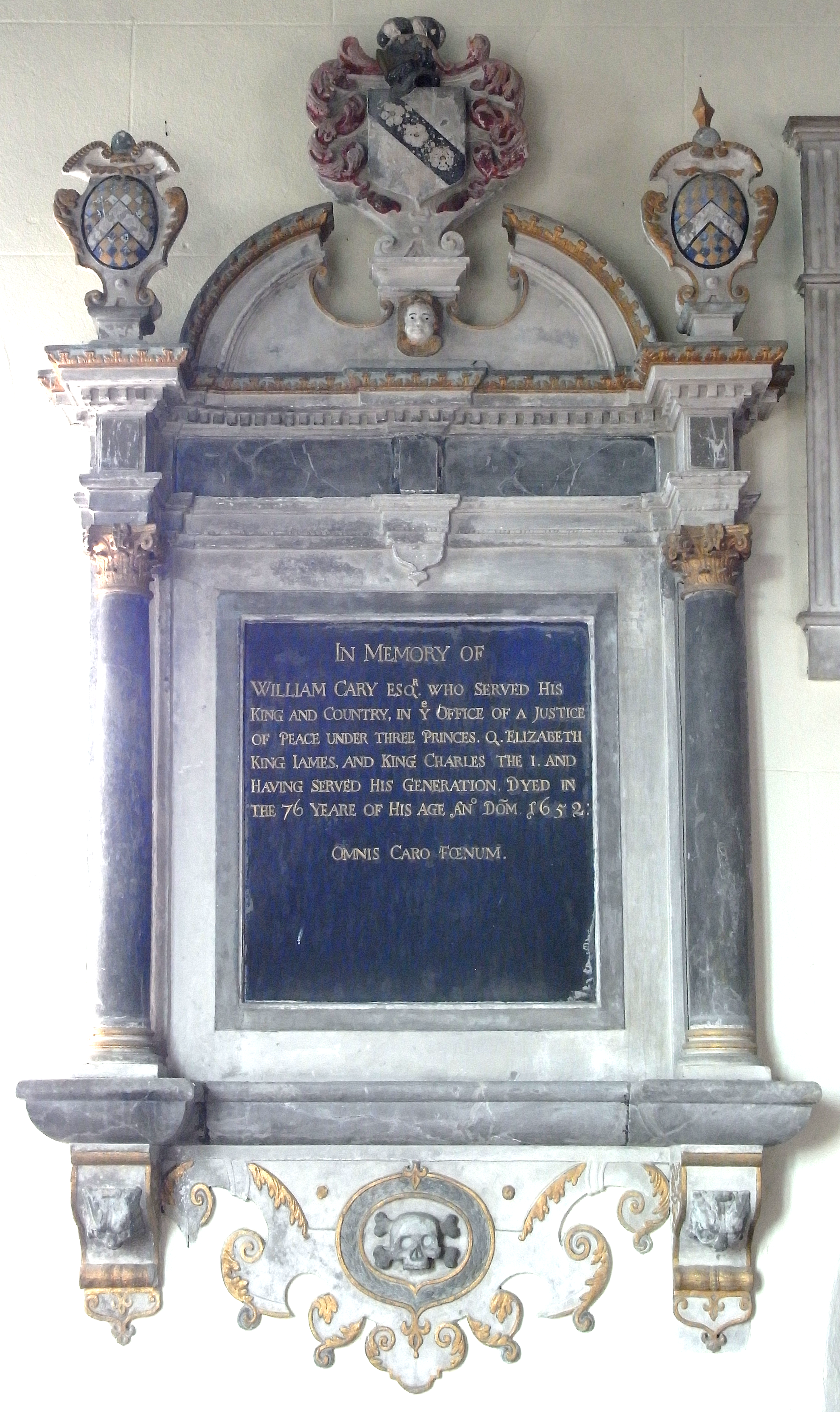 Brass coffin-plate of Richard III Duke (1567–1641), Otterton Church, Devon; Omnis Caro Foenum, Isiah 40:6 ("All flesh is grass") Mural monument to William II Cary (1576-1652), lord of the manor of Clovelly, Devon. All Saints Church, Clovelly. Inscription: "In memory of William Cary Esqr who served his king and country in ye office of a Justice of Peace under three princes, Q. Elizabeth, King James and King Charles the I and having served his generation dyed in the 76 yeare of his age Ano Dom 1652: Omnis Caro Foenum". The arms top centre are: Argent, on a bend sable three roses of the field (Cary); the arms top left and right are: Lozengy or and azure, a chevron gules (Gorges, for his wife Dorothy Gorges (d.1622), eldest daughter of Sir Edward Gorges of Wraxall, Somerset). The final sentence in Latin Omnis Caro Foenum, is from Isiah 40:6 ("All flesh is grass") and is a pun on the name Cary, but was commonly used on monuments elsewhere (see e.g. File:RichardDuke MargaretBasset Brass OttertonChurch Devon.JPG, right)